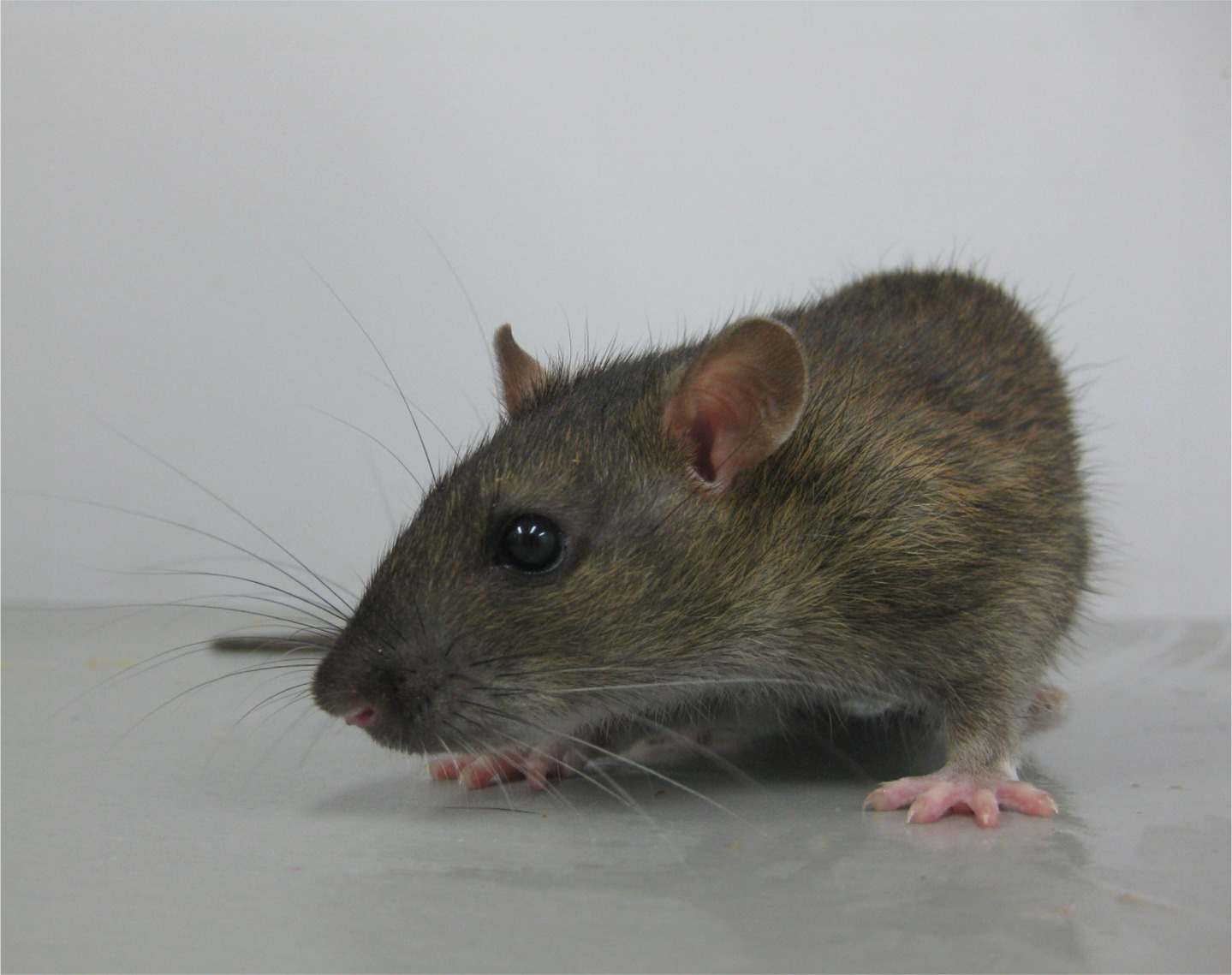 female WWCPS rat